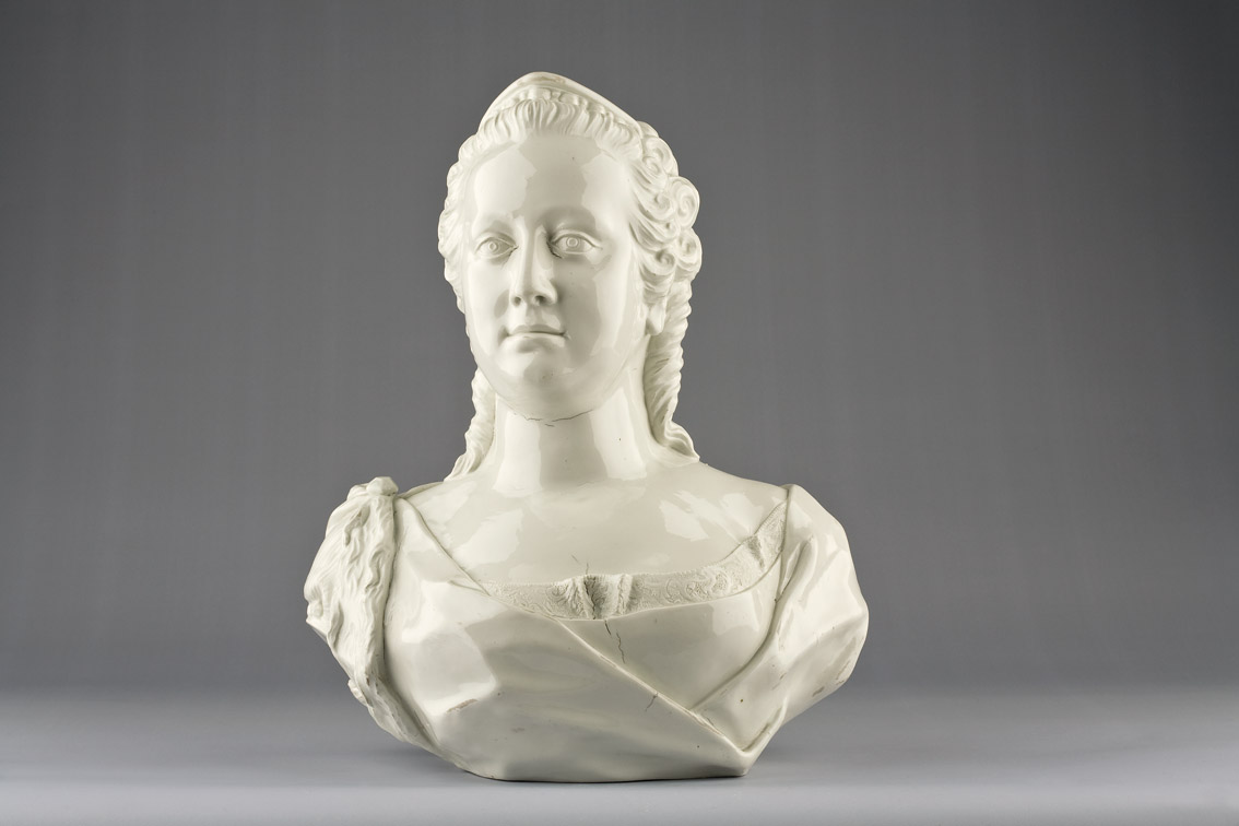 Porcelain bust of Maria Theresa, Empress and mother of Marie Antoinette